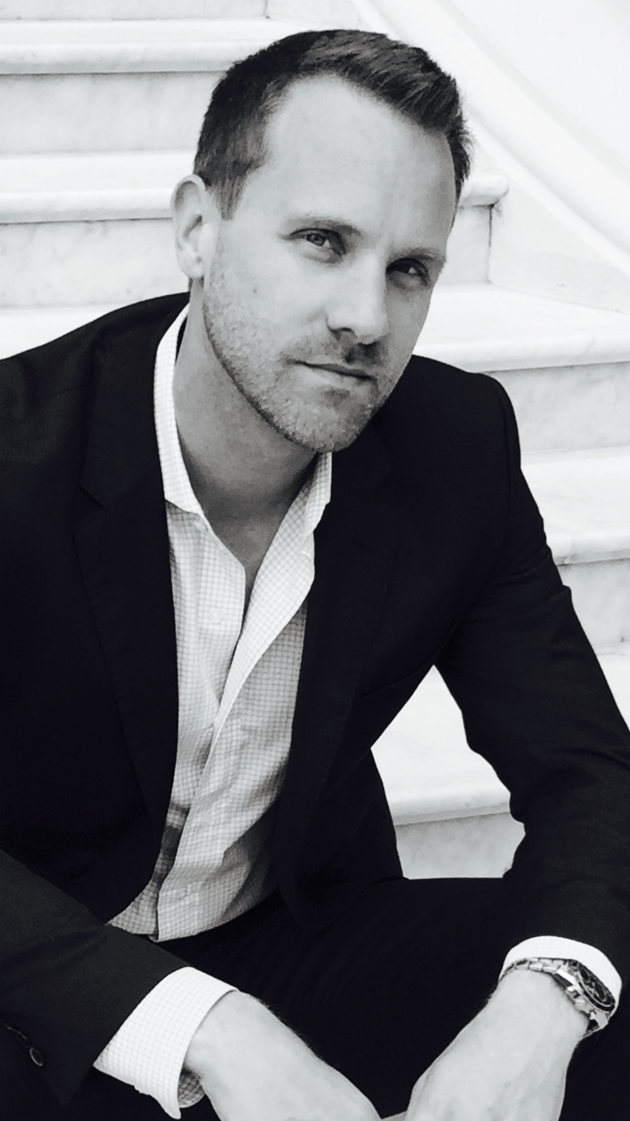 A picture of Nic Radford